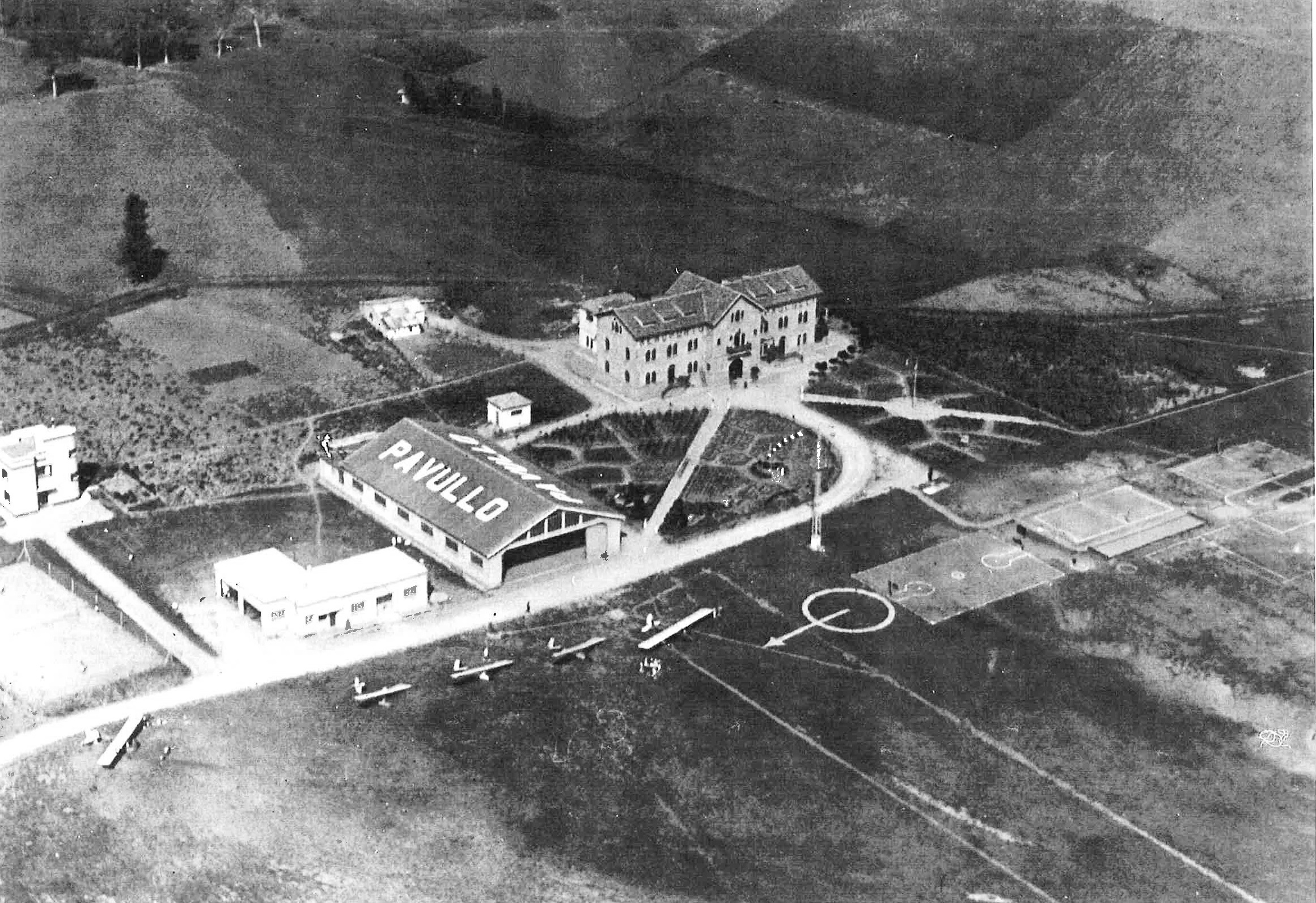 Visione dall'alto dell'Aeroporto di Pavullo nei primi anni